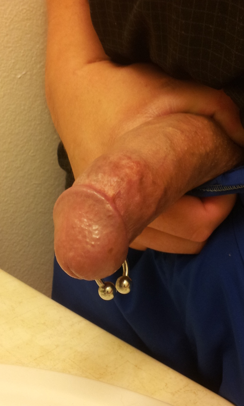 erect penis pierced with a prince albert piercing. Through it is an 8 gauge circular barbell.